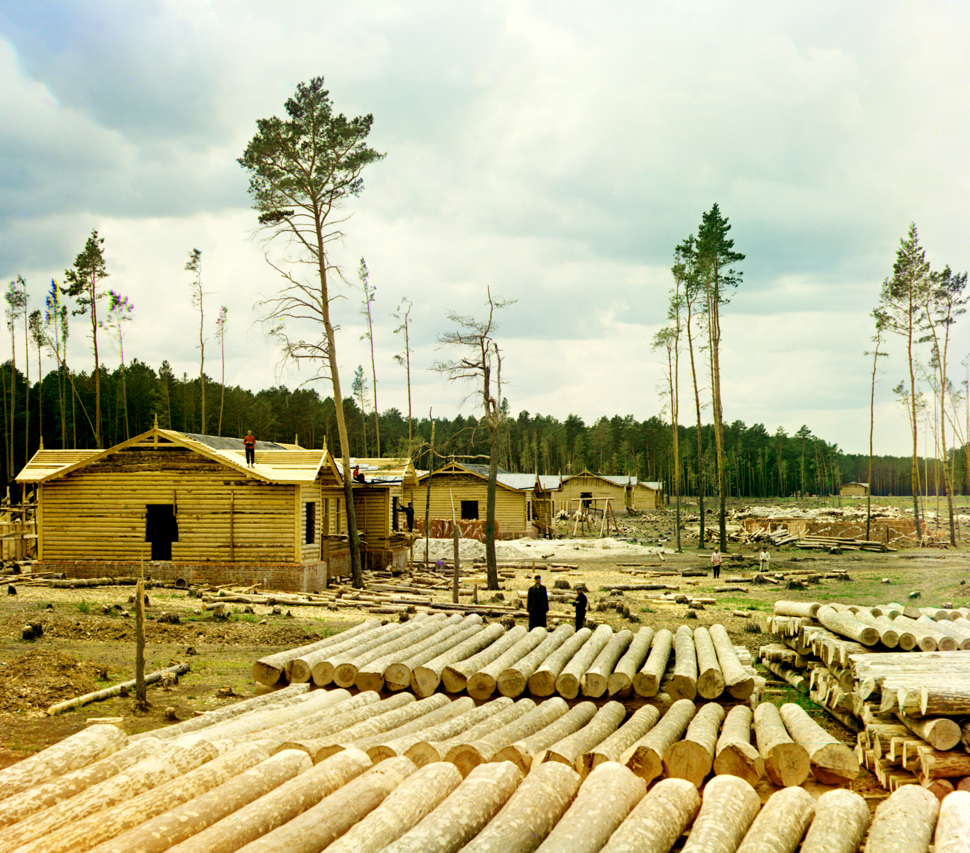 To Make Your Own Color Photo from the Original Glass Plate Negative, use this file: Prokudin-Gorskiĭ, Sergeĭ Mikhaĭlovich,, 1863-1944, photographer. Railroad construction on the Shadrinsk-Sinara railroad near the city of Shadrinsk 1912. 1 negative (3 frames) : glass, b&w, three-color separation ; 24 x 9 cm. Notes: Forms part of: Sergei Mikhailovich Prokudin-Gorskii Collection (Library of Congress). Subjects: Railroad construction & maintenance. Logs. Wooden buildings. Russia (Federation)--Shadrinsk. Russia (Federation)--Siberia, Western. Format: Glass negatives. Color separation negatives. For additional information on commercial use, see "Prokudin-Gorskii...," Repository: Library of Congress, Prints and Photographs Division, Washington, D.C. 20540 USA Higher resolution image is available (Persistent URL): Call Number: LC-P87- 4573